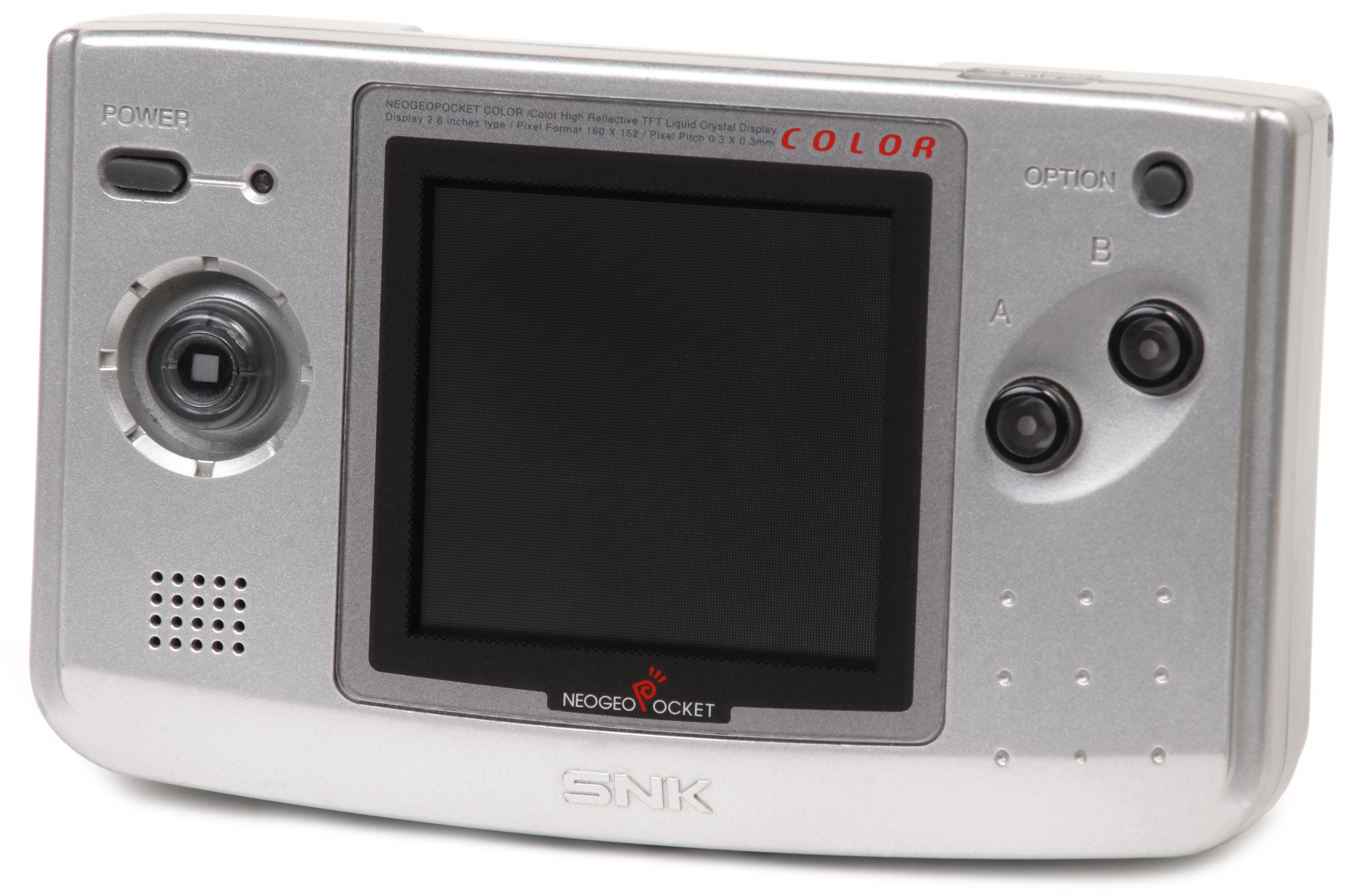 A NeoGeo Pocket Color handheld video game system.